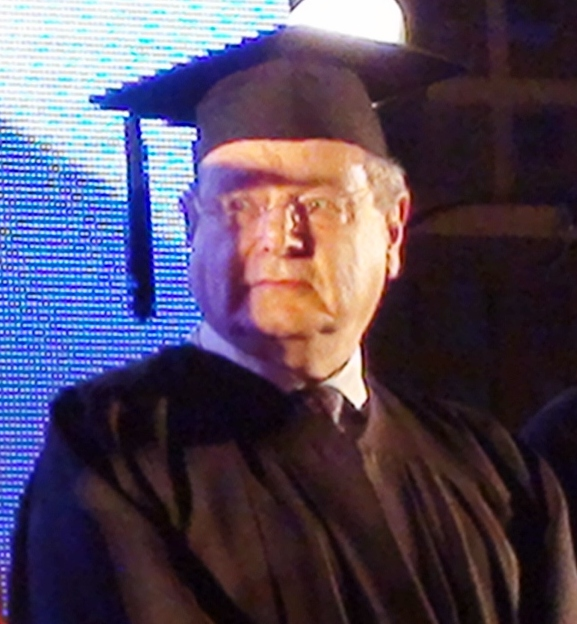 British historian Martin Gilbert in Beer Sheva, Israel